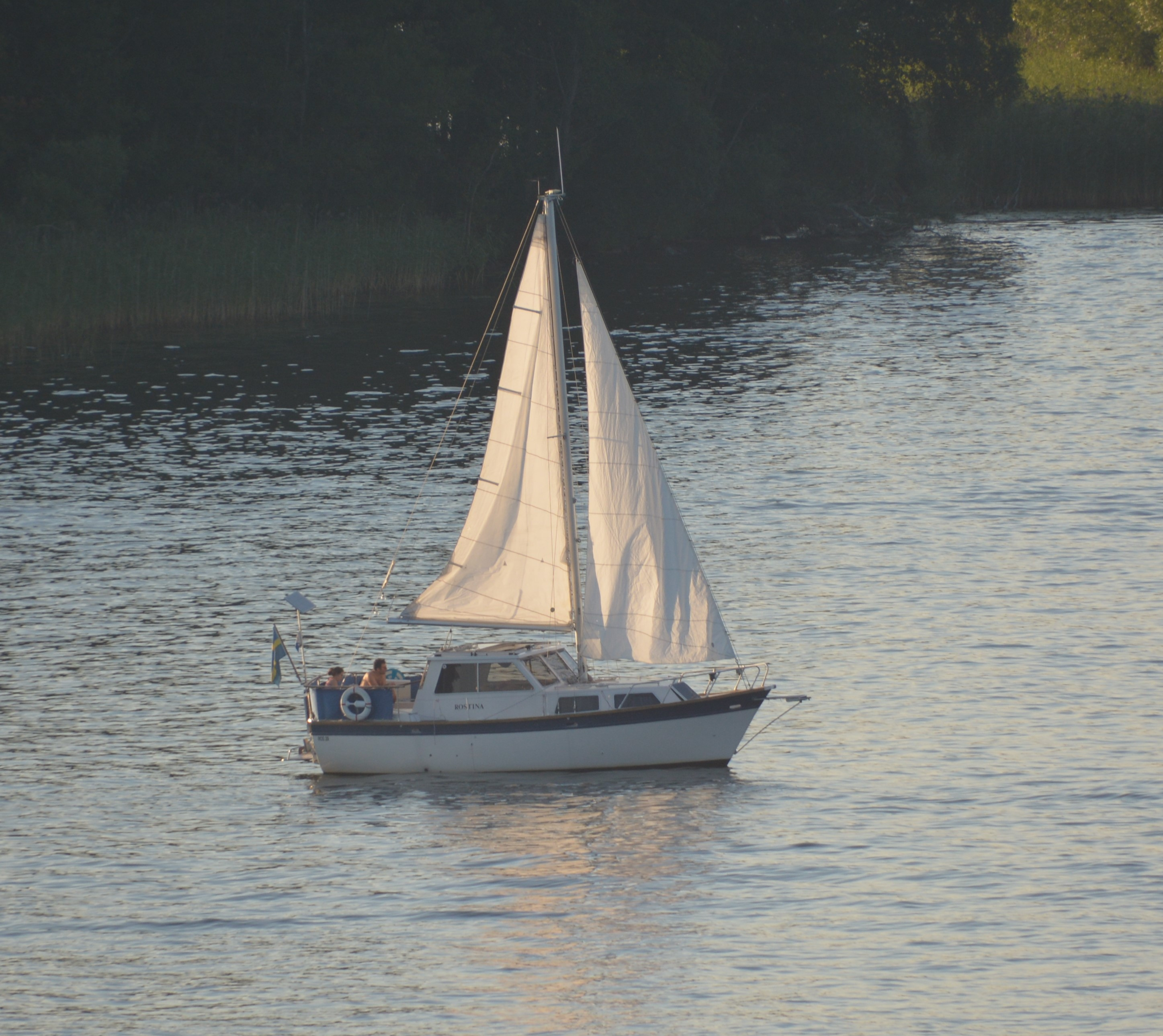 Combined motor and sailing yacht